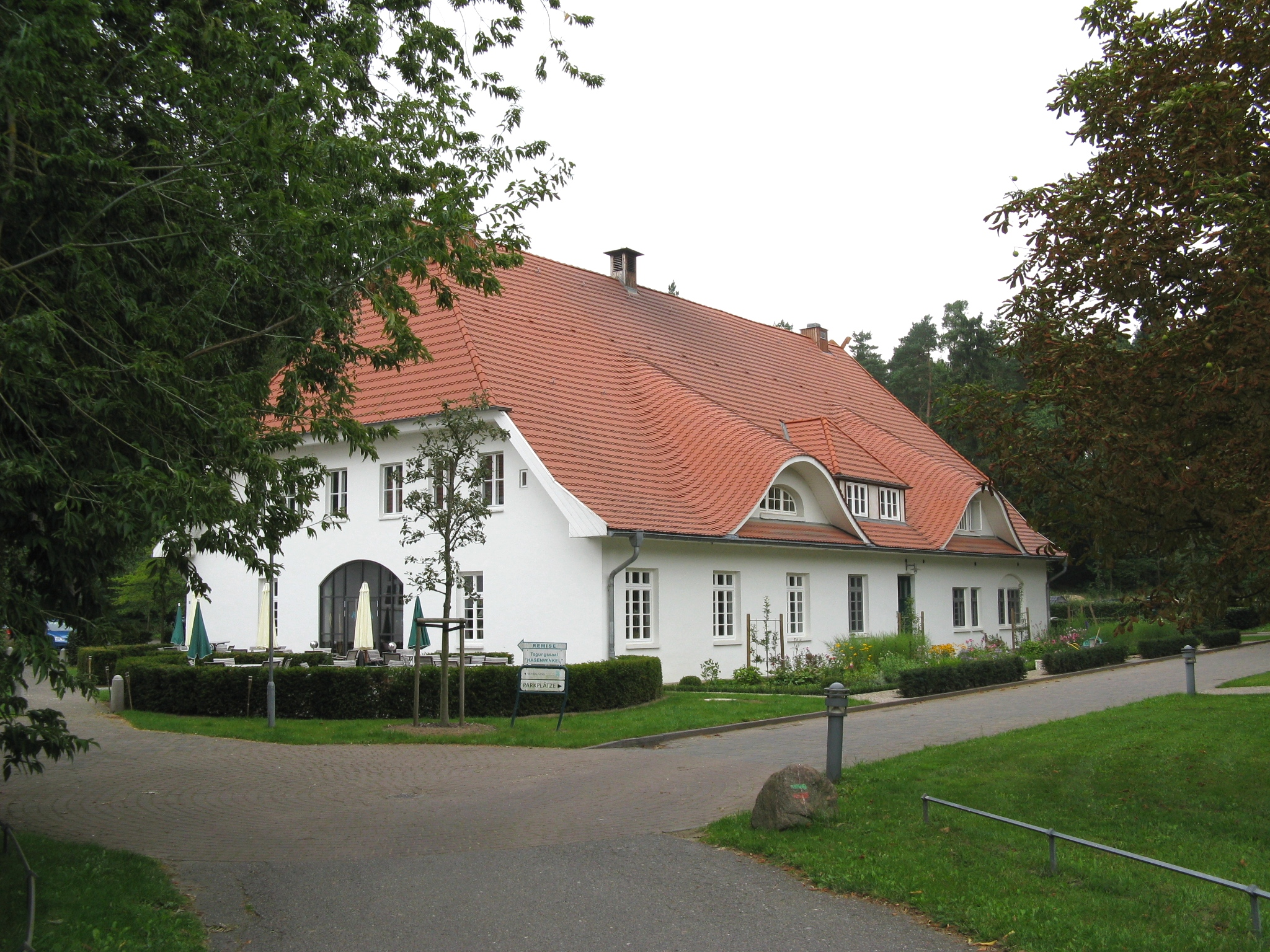 A stable of the former manor house in Hasenwinkel, Mecklenburg-Vorpommern, Germany